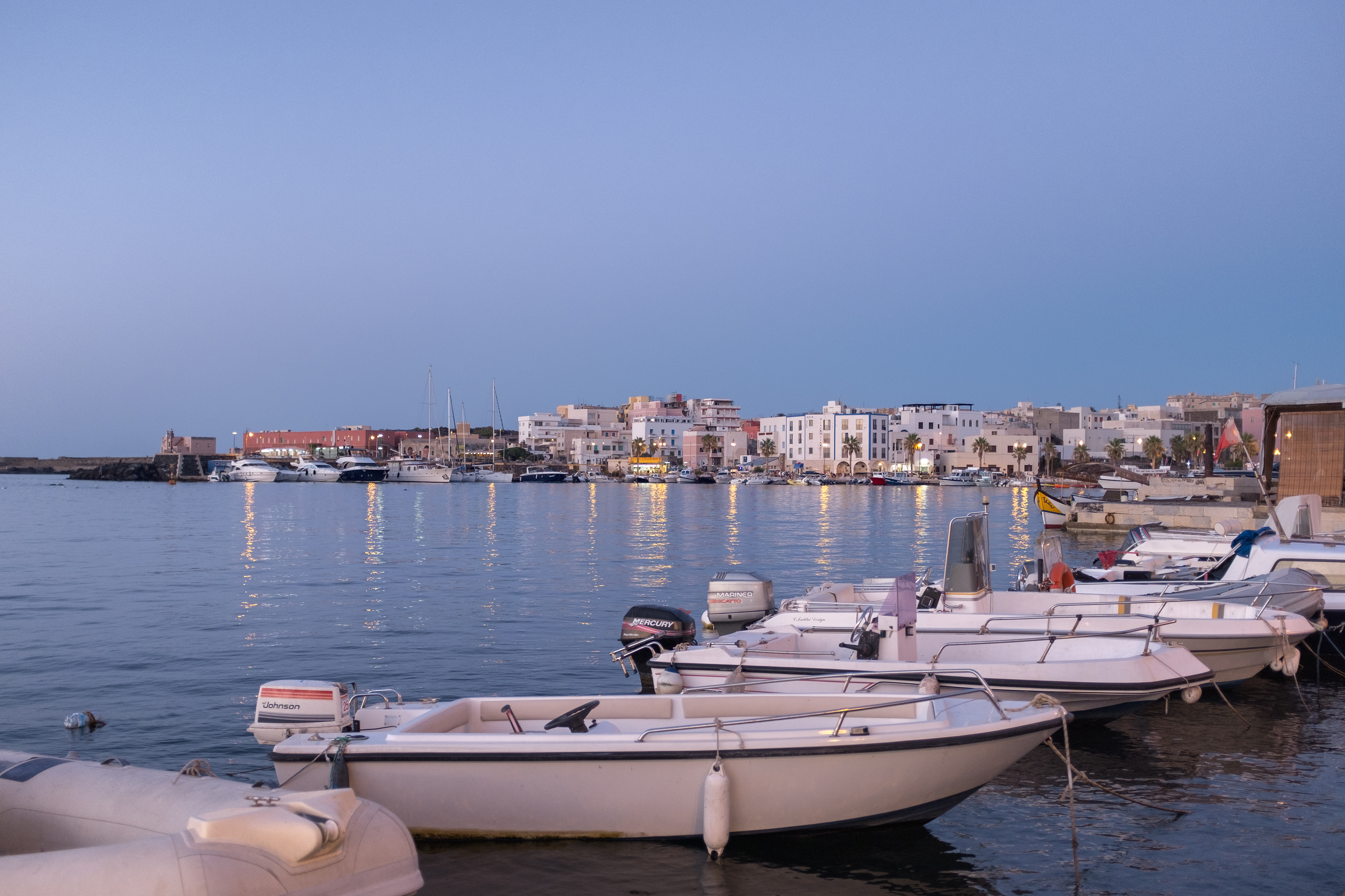 Evening at the Port - Pantelleria, Trapani, Italy